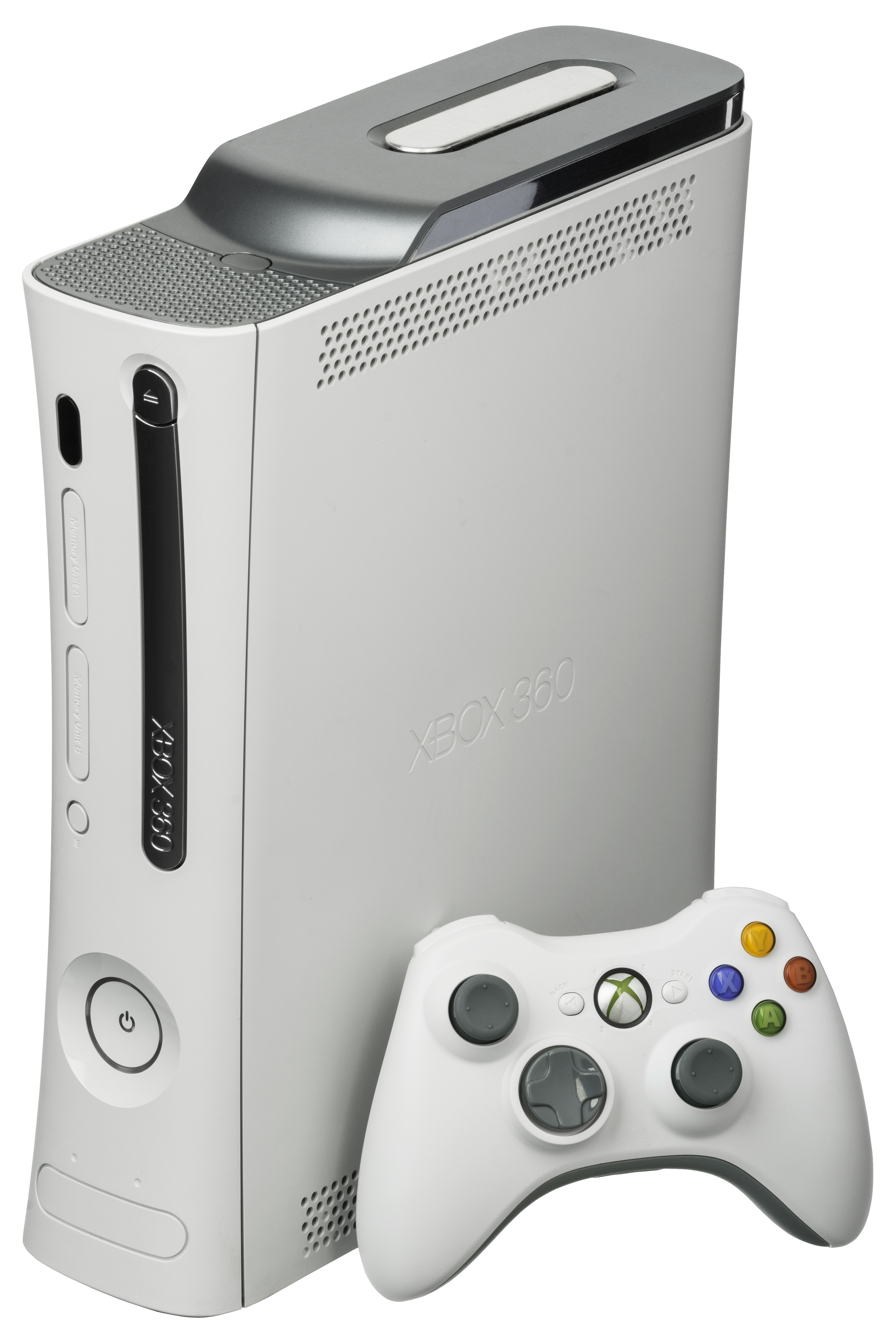 The Xbox 360, a video game console released by Microsoft in 2005. This is the "Pro" model from the launch line-up, which featured a 20GB hard drive, wireless controller and a silver DVD bezel. The production date of this unit is 2005-11-05, making it a very early unit. Of note is the gray on the hard drive at the top, which is very shiny and silvery. This was changed to a matte gray in later models.